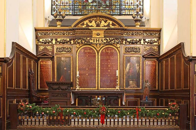 St Edmund the King & Martyr, Lombard Street, London EC3 - Sanctuary